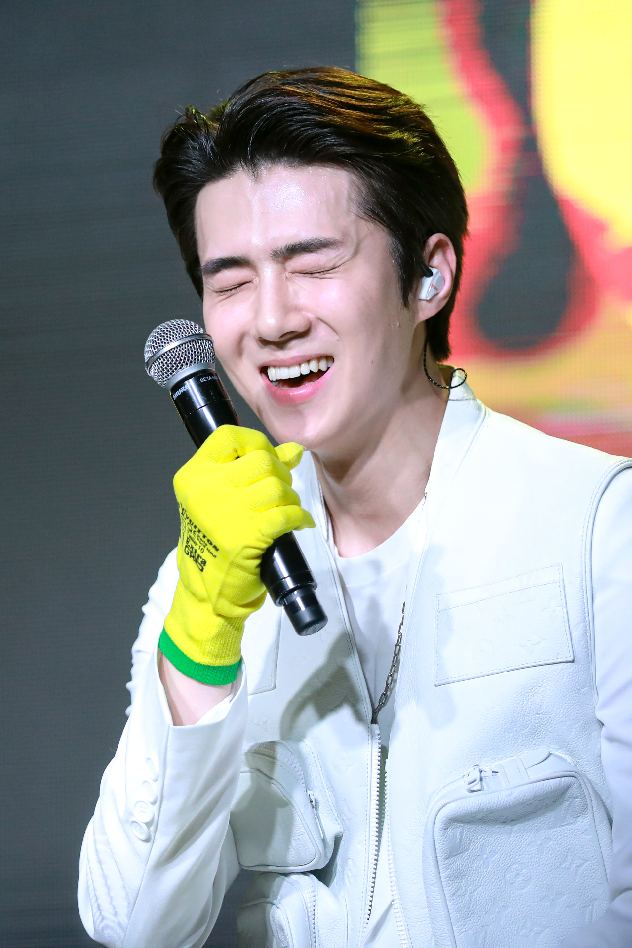 Sehun at a showcase on July 22, 2019.